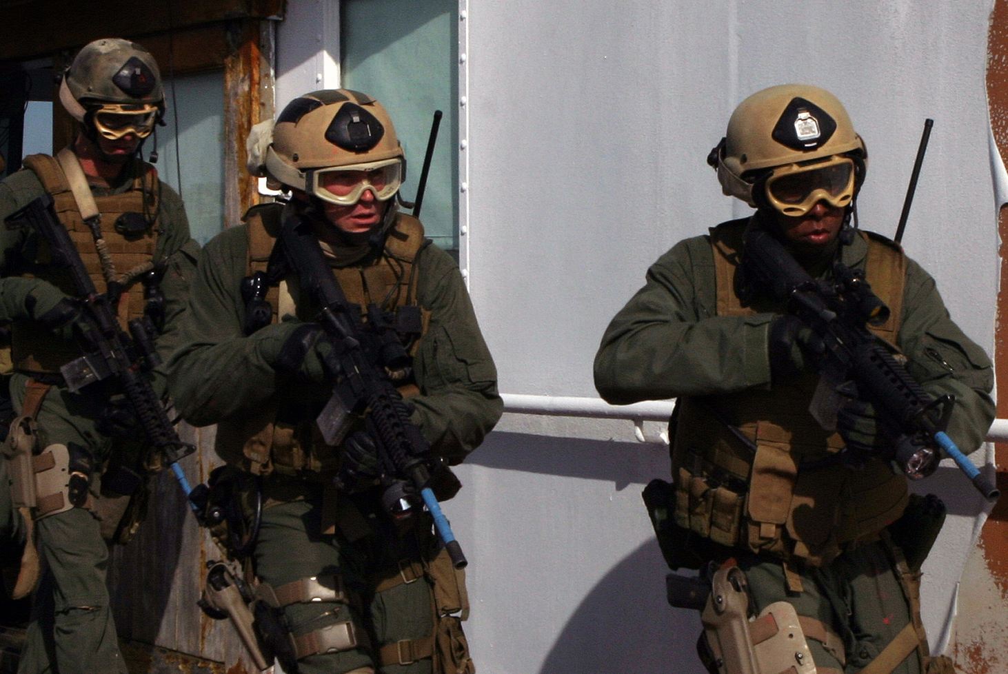 mv paThe 24th Marine Expiditionary Unit conducts Visit, Board, Search, and Seizure (VBSS) training in support of Maratime Interception Operations (MIO) at Fort Eustis, VA as part of thier predeployment training. Marines from the MEU Force Recon Platoon assault role players from BLT 1/8 aboard the vessle Patriot State